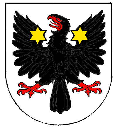 Arboga city arms This representation of a coat of arms is potentially different from the one used by the armiger (municipality or organisation) in question. = ⇑“Sable, a lionrampant or” This coat of arms was drawn based on its blazon which – being a written description – is free from copyright. Any illustration conforming with the blazon of the arms is considered to be heraldically correct. Thus several different artistic interpretations of the same coat of arms can exist. The design officially used by the armiger is likely protected by copyright, in which case it cannot be used here.Individual representations of a coat of arms, drawn from a blazon, may have a copyright belonging to the artist, but are not necessarily derivative works. Further information: Commons:Coats of arms and Template:Coa blazon